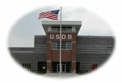 Front of USDB